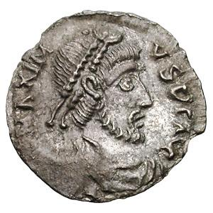 Siliqua of Maximus, Roman usurper ca. 409-411 in Spain